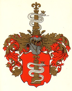 Coat of arms of the Charisius family